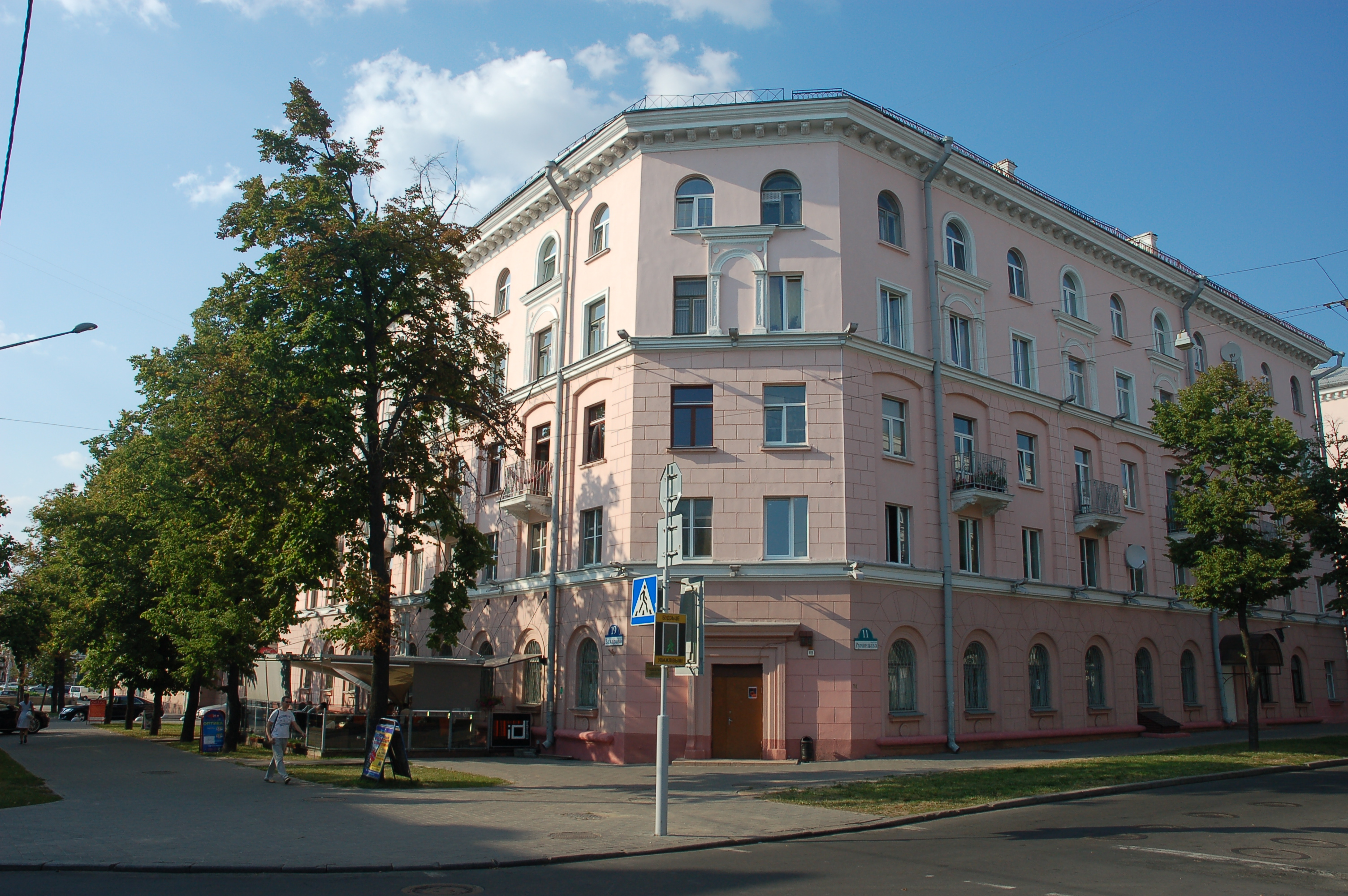 Minsk, 19 Zakharava Street